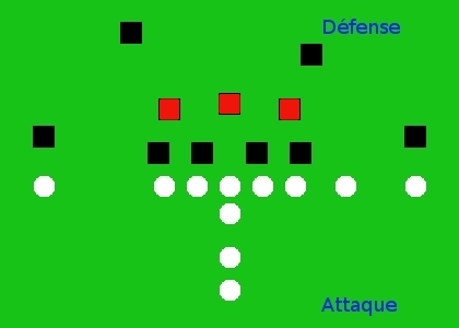 linebackers positions on the field (football)